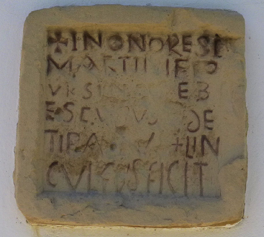 Inscription ar the church in Windisch